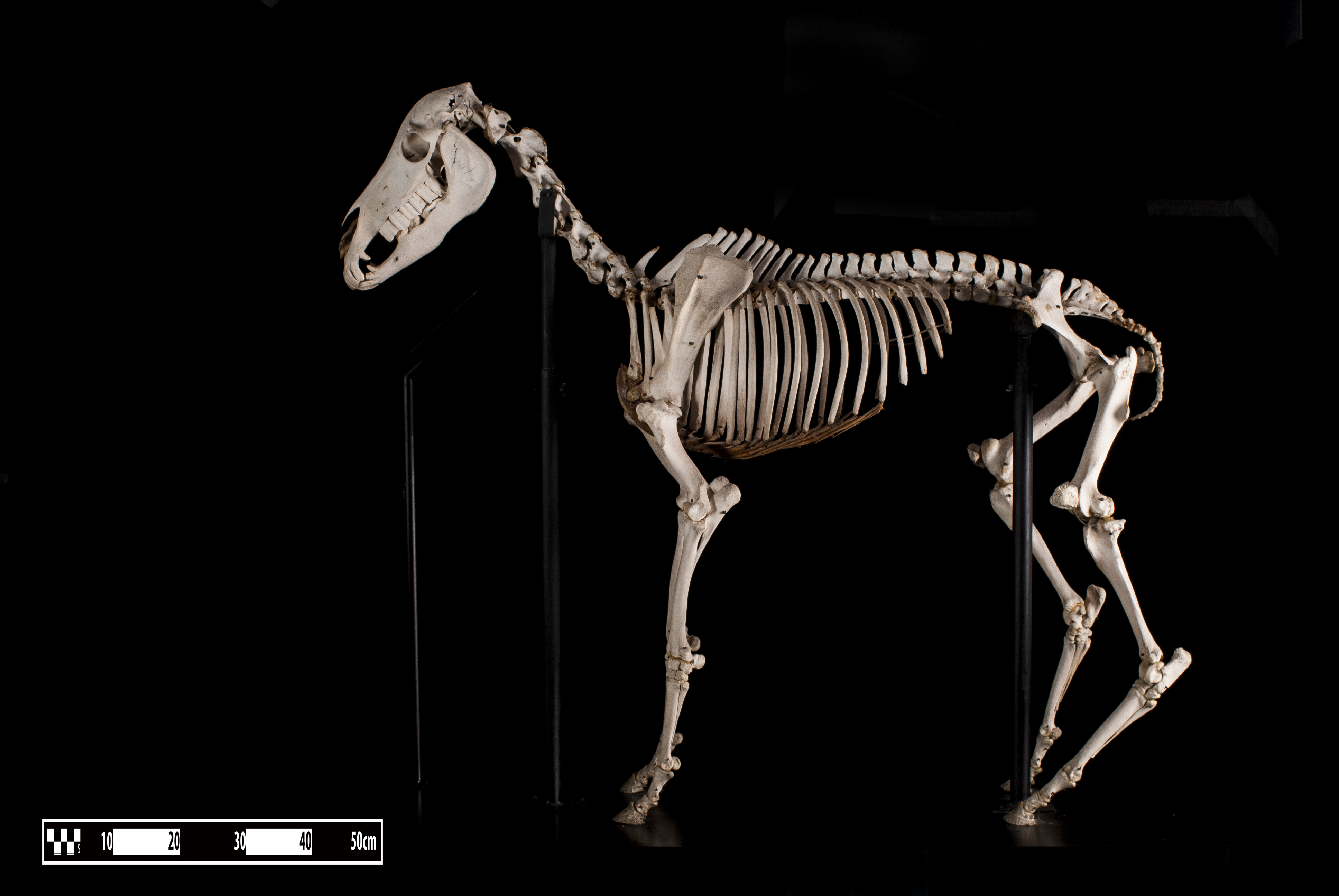 Donkey skeleton. Equus asinus”. Specimen of donkey skeleton prepared by the bone maceration technique and on display at the Museum of Veterinary Anatomy, FMVZ USP.